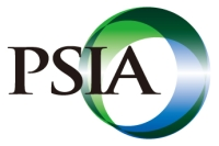 Official English logo of the Public Security Intelligence Agency.